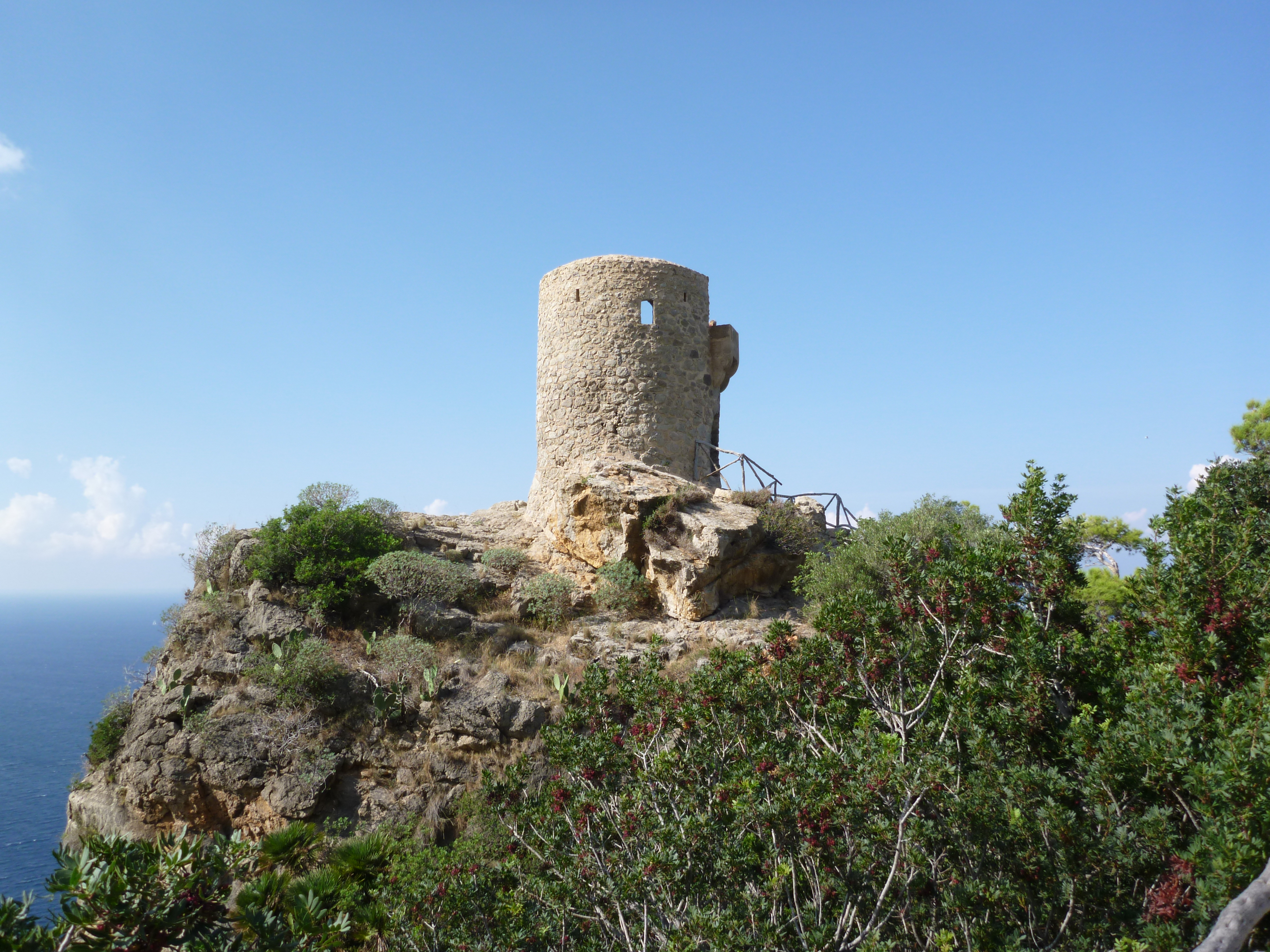 Torre del Verger on island Mallorca